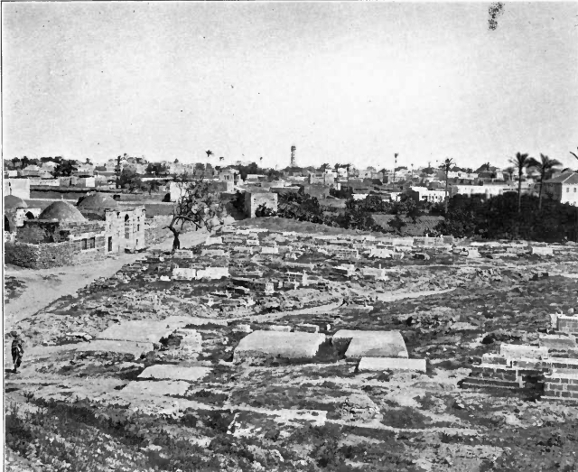 Gaza 1906